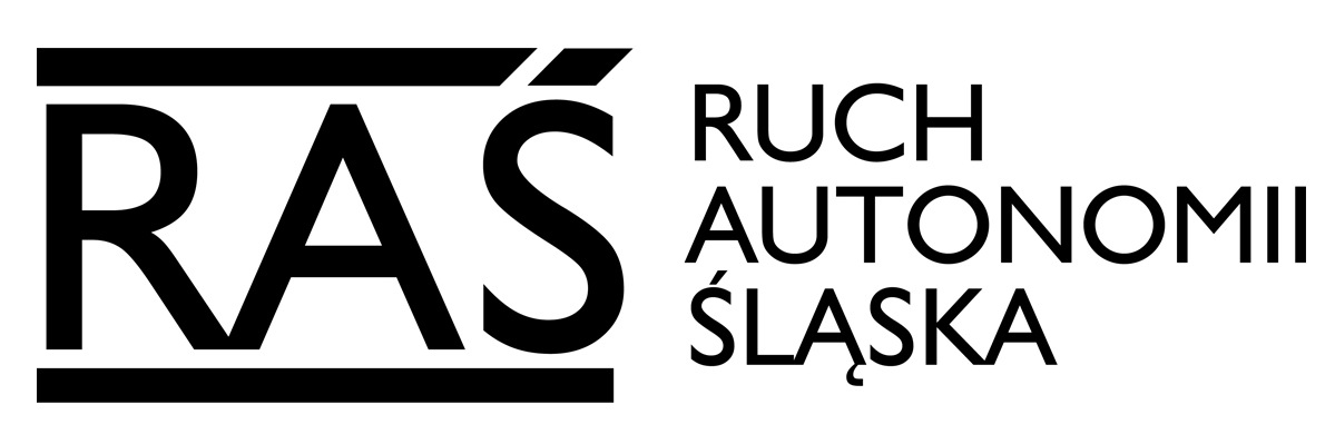 Logo of Silesian Autonomy Movement.